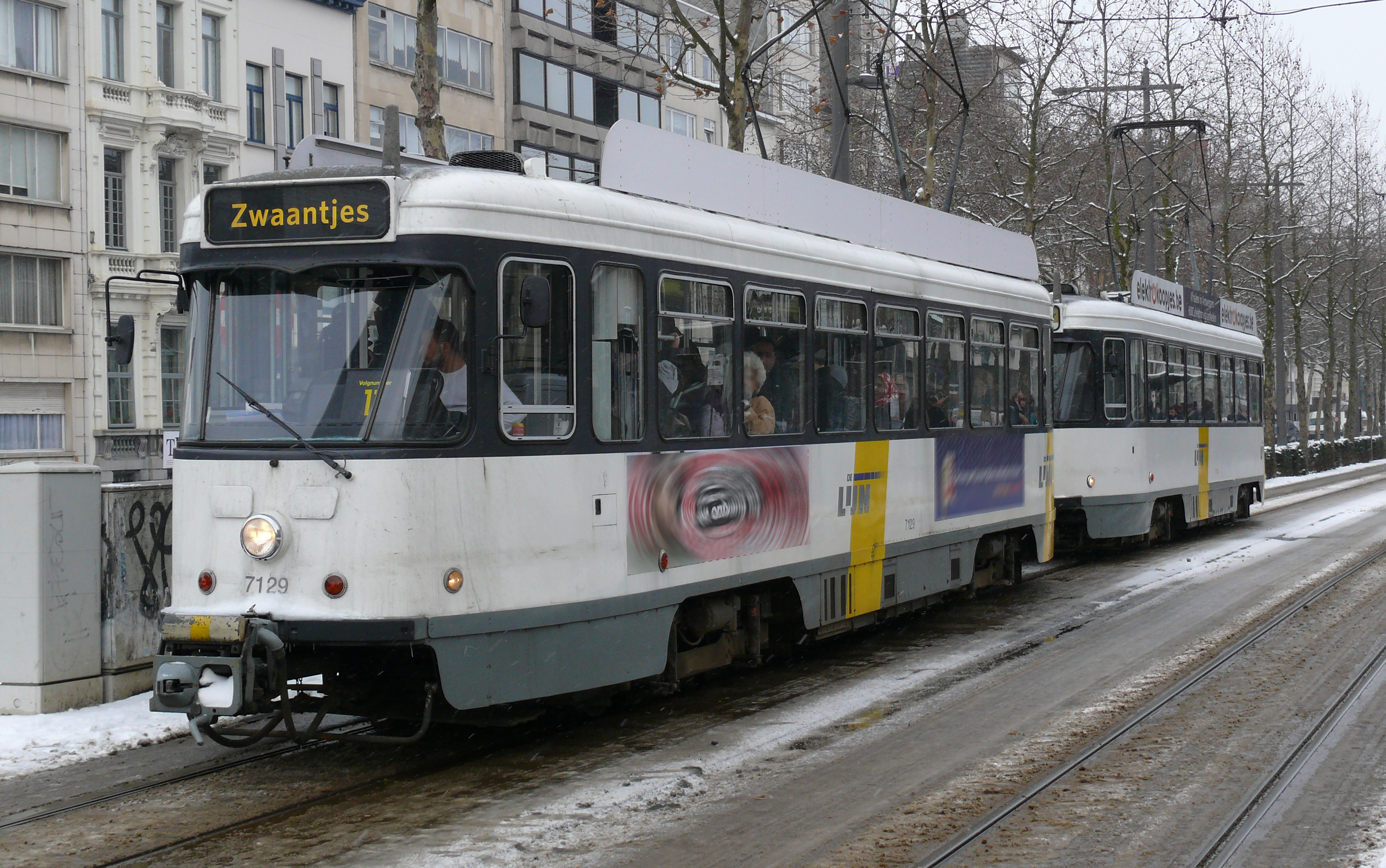 Antwerp tram 7129 on tracks at the Leien. This is a part route 24 tram PCC car.